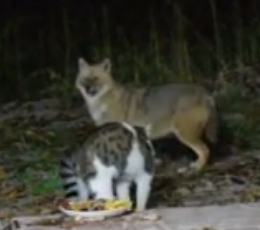 Golden jackal confronting cat over food in Iran